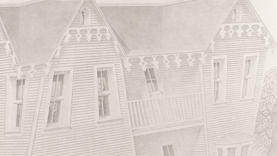 Smithsonian American Art Museum photo of John Grazier's work "House on a Hill in a Dream"